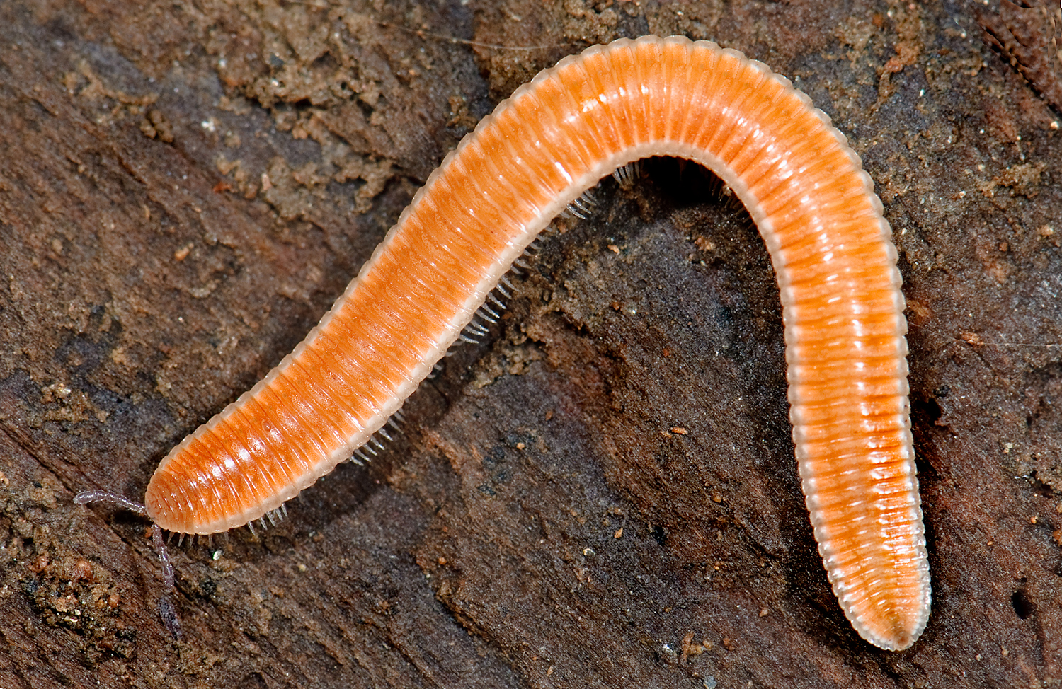 Found under decomposing log on N-facing slope, in coniferous forest. I'm not 100% confident with this species determination - these specimens were found several counties south of the type locality in Placer county.